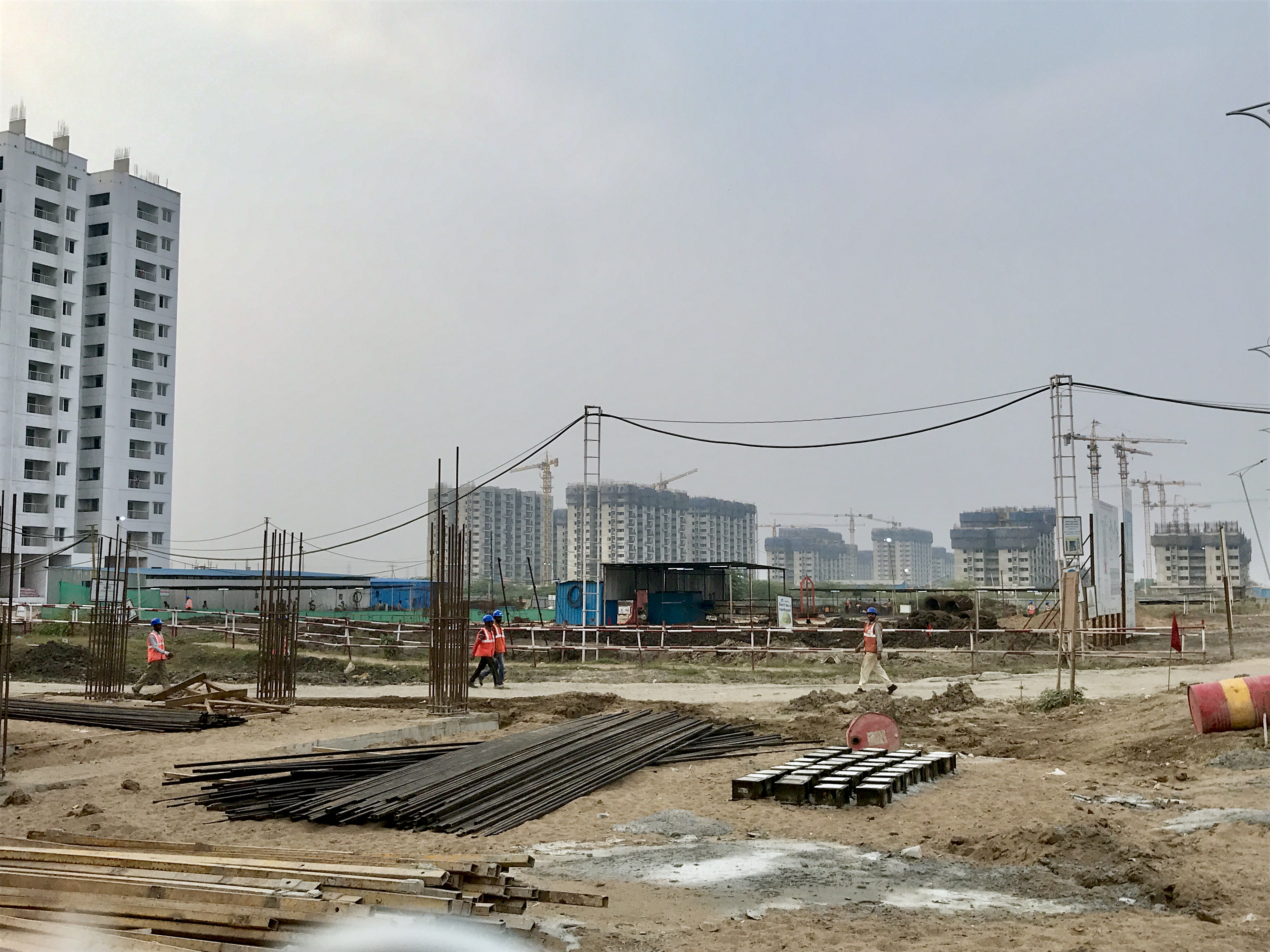 Amaravati is a planned city in Andhra Pradesh which was designed by Architect Norman Forster